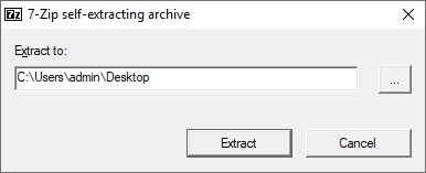 Screenshot of a self-extracting archive created with 7-Zip.